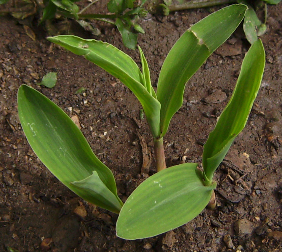 Corn (sweetcorn), Zea mays, seedlings, three weeks after sowing, Castelltallat, Catalonia